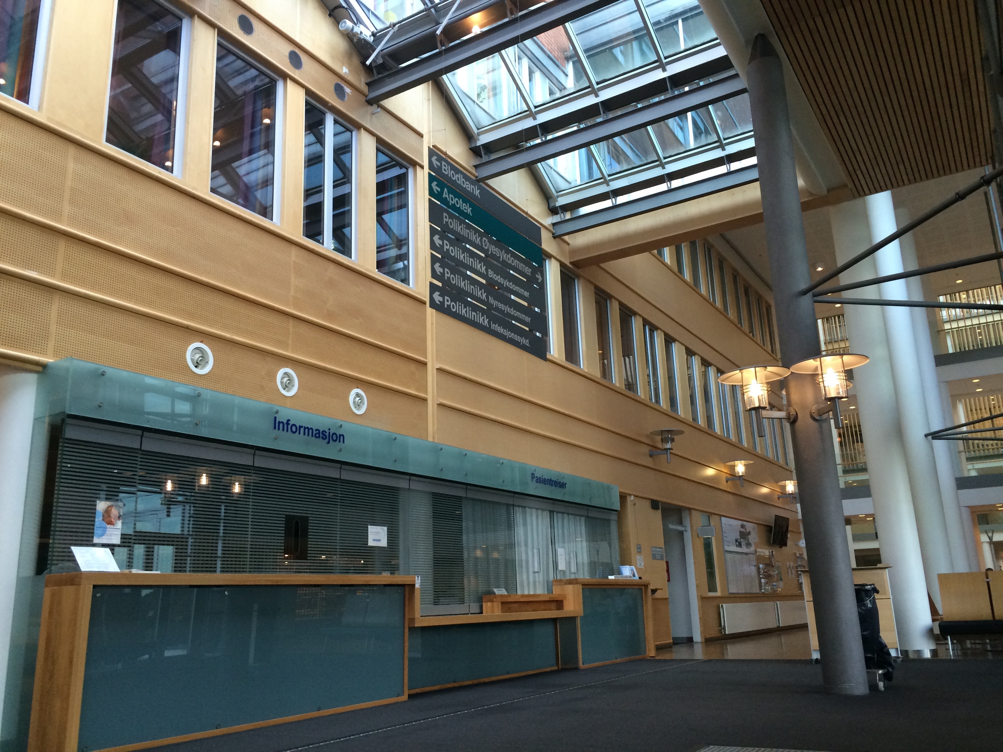 Sykehuset i Vestfold interior information Toensberg hospital Norway 2015-07-22